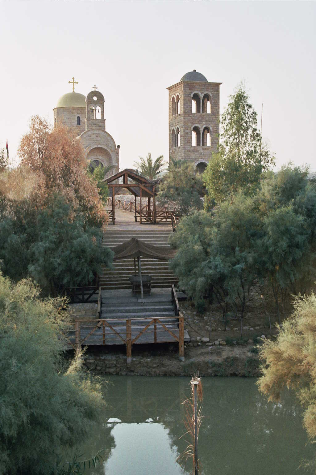 St. John the Baptist Church on the Jordan River — Kasser Al Yahud.